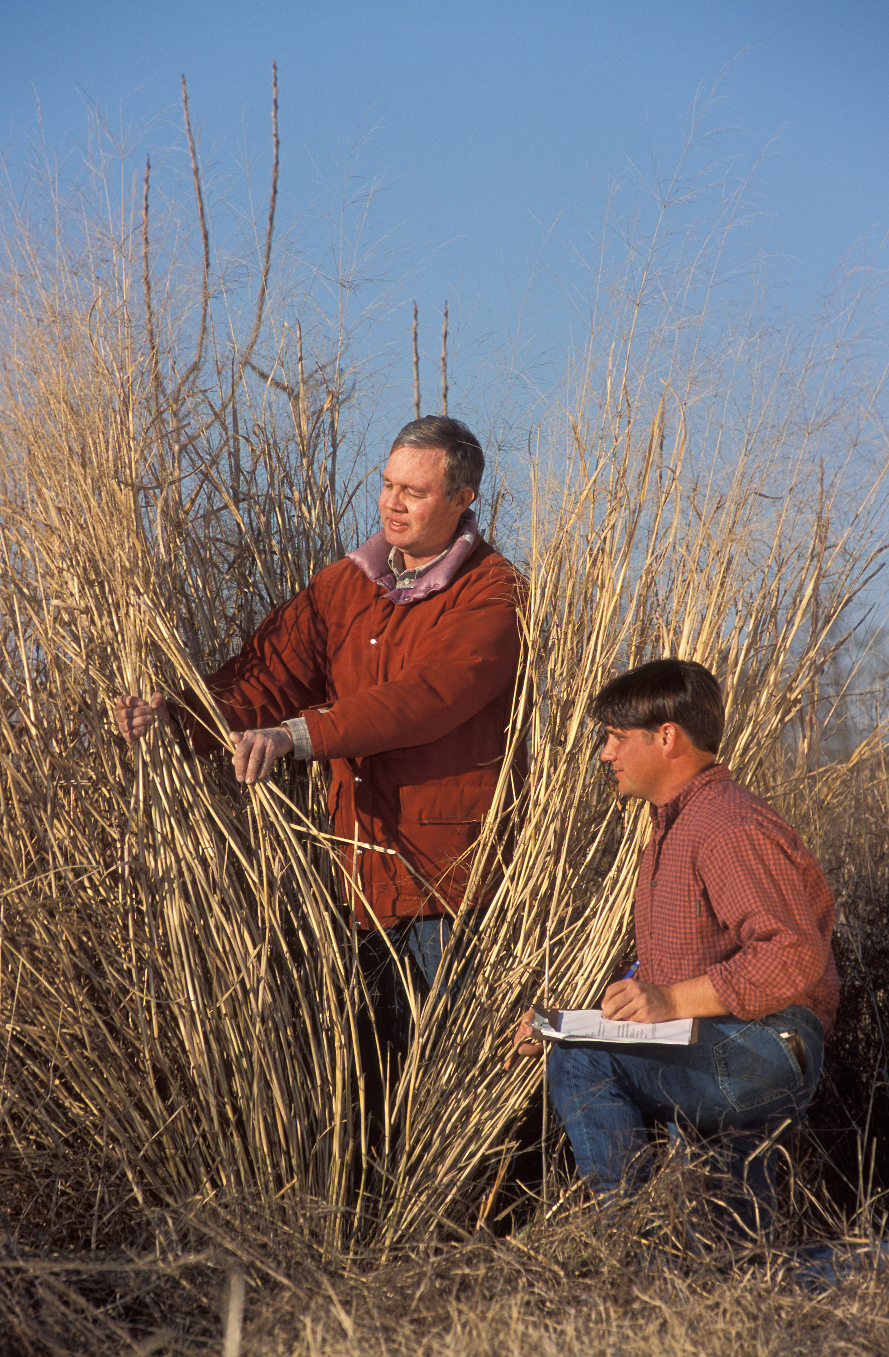 Technicians Calvin Vick (left) and John Massey measure switchgrass stem density and geometry at the upstream end of a riparian gully at Little Topashaw Creek in Mississippi. Photo by Peggy Greb.